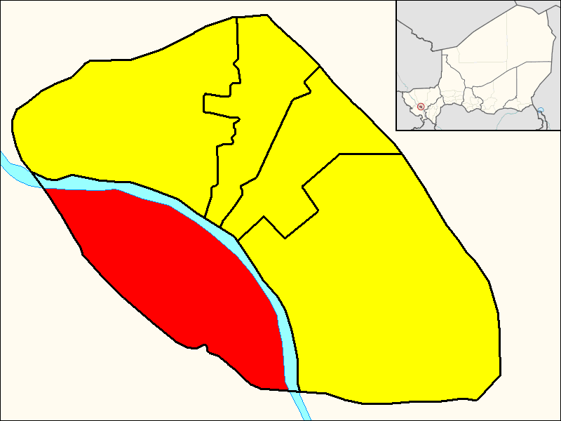 Map of the borough (commune) of Niamey V (shown in red) within the city of Niamey (yellow). Niger River is shown in the map.